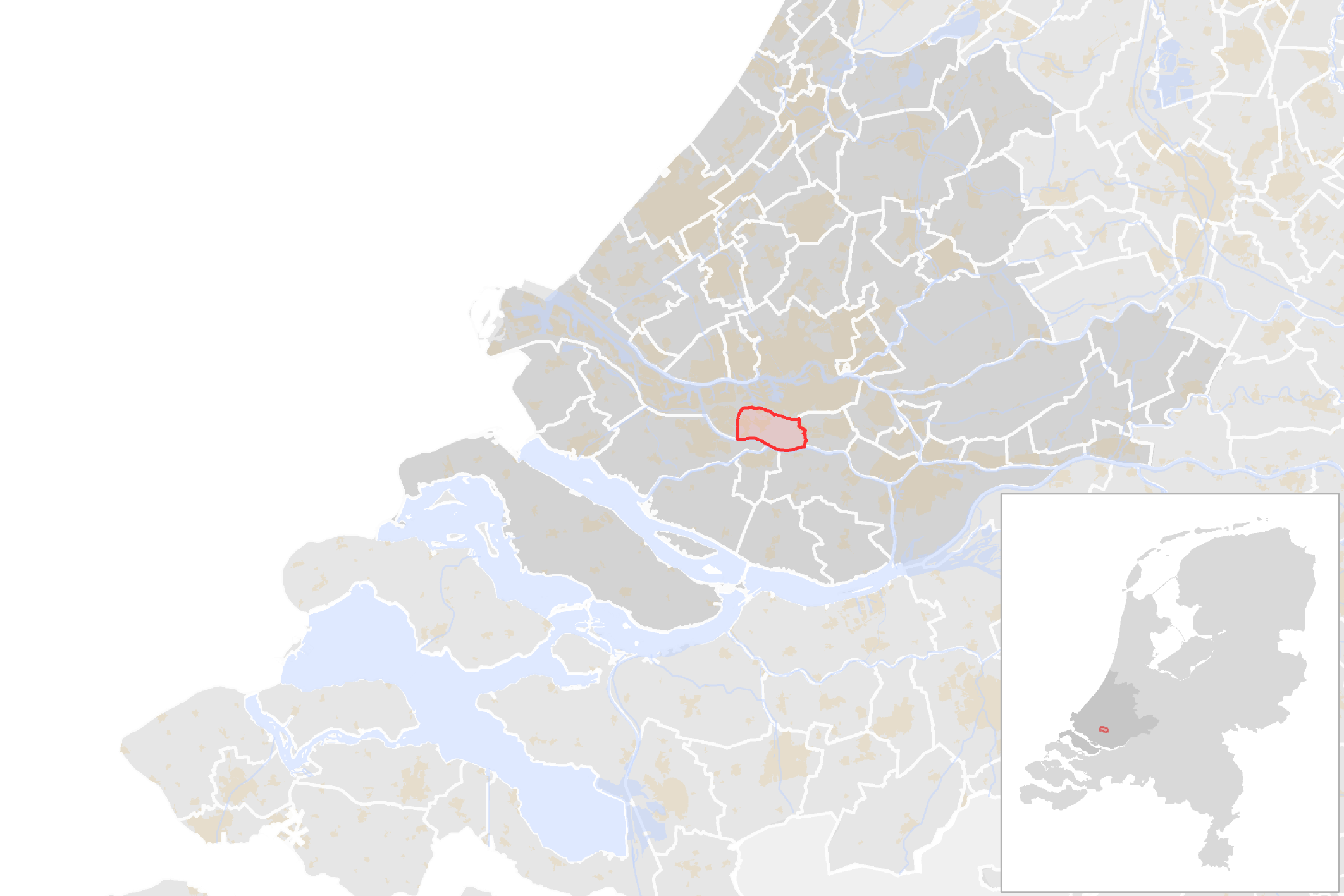 Locator map showing municipality boundary of one of the 390 Dutch municipalities (as of 2016)